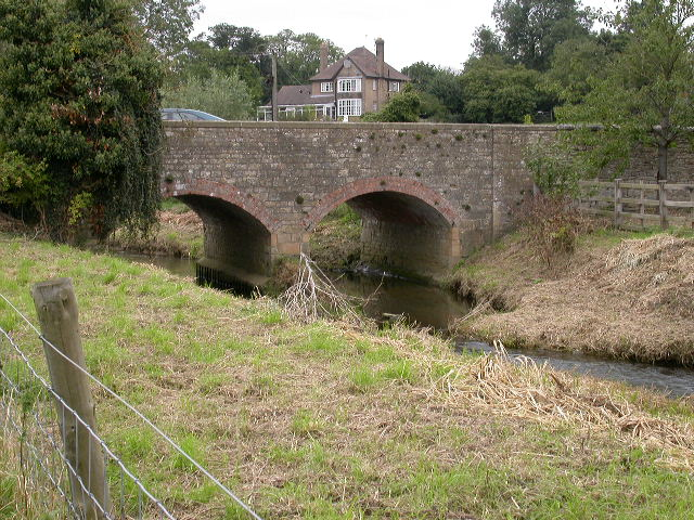 Bridge over Harper's Brook. Outskirts of Lowick